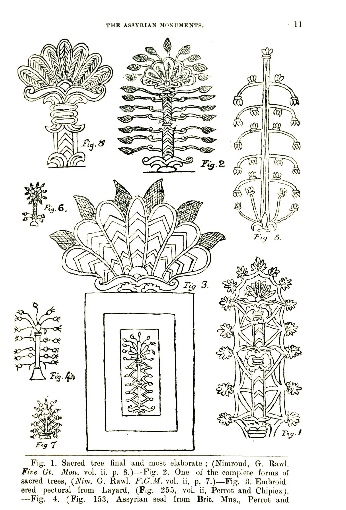 Diagrams of Assyrian sacred trees by Dr E. Bonavia